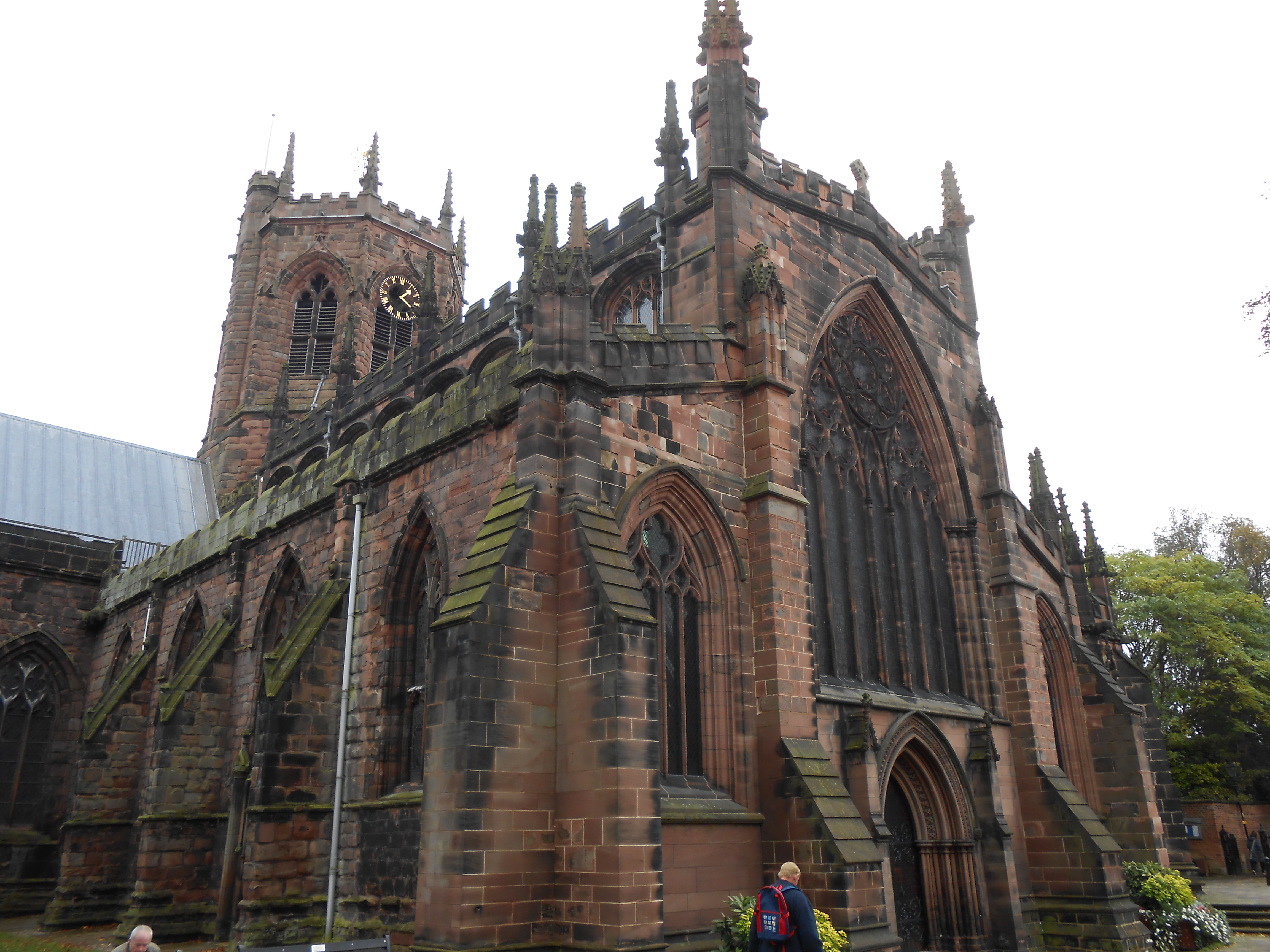 Photo taken at St Mary's church, Nantwich, Cheshire, England.